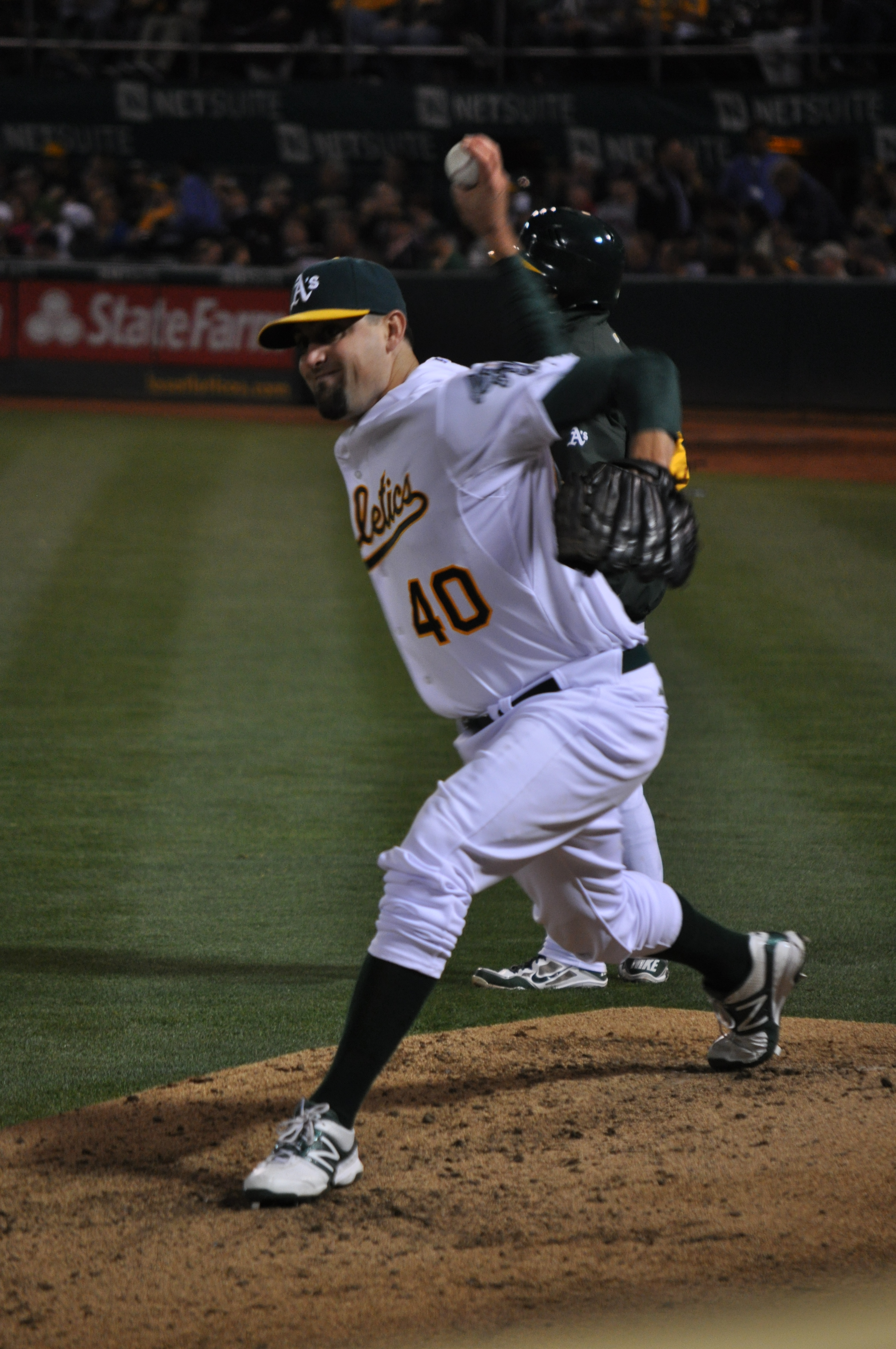 Pat warms up during the 8-21-12 A's-Twins game.